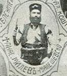 Portrait of IMARO voivoda Alexander Dunevski from Chiflik